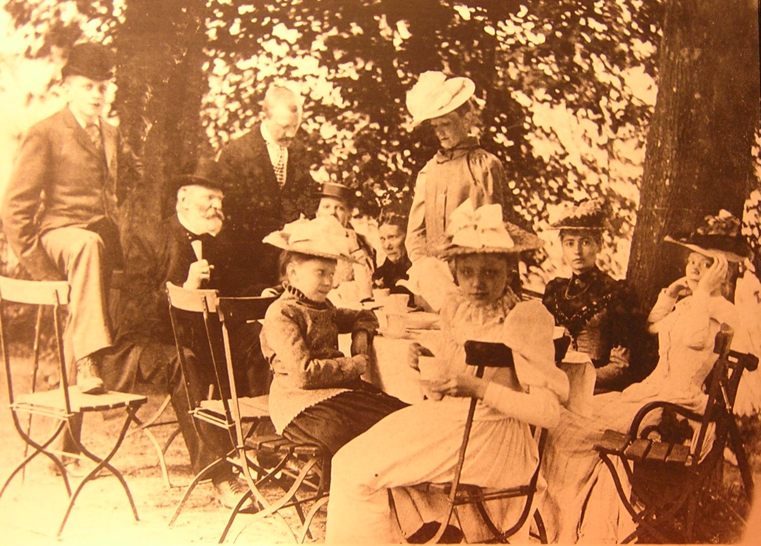 photo of family von Reinken, Germany 1890